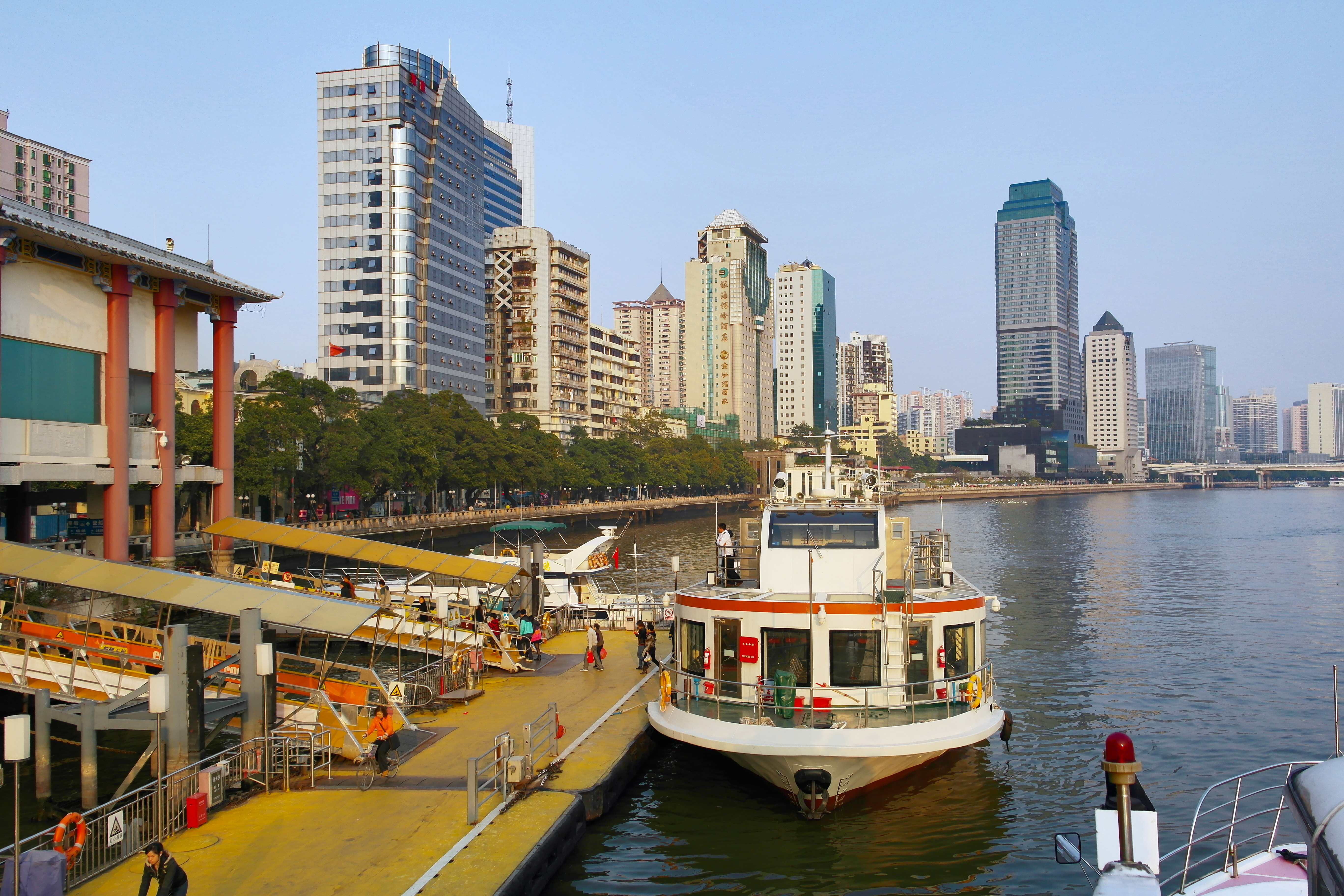 SAMSUNG CSC